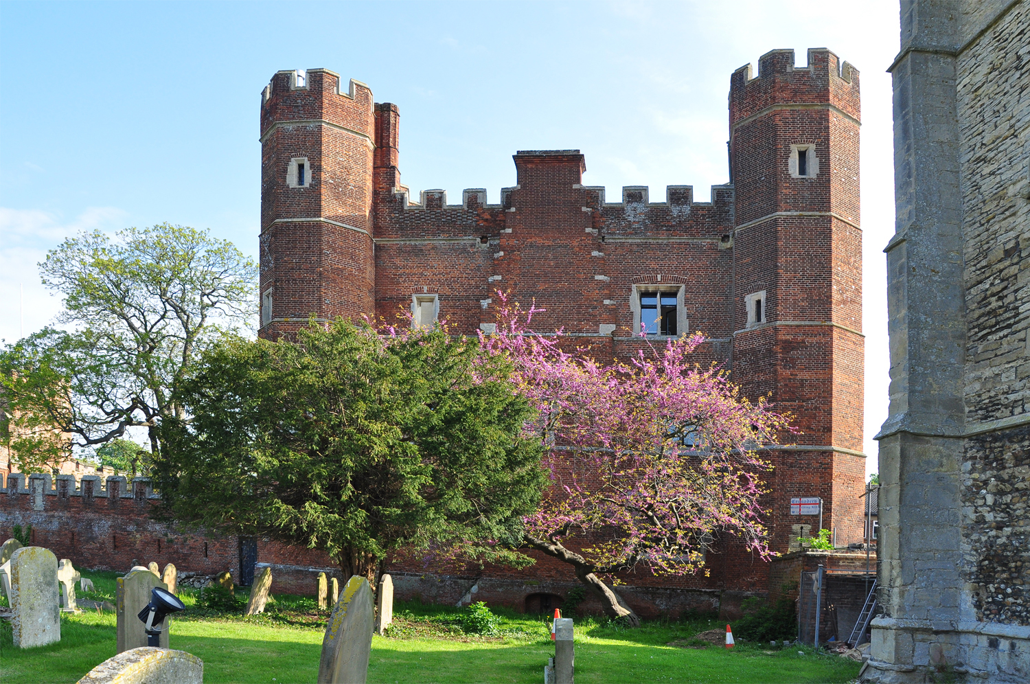 Buckden Towers and blossom - Buckden, near to Buckden, Cambridgeshire, Great Britain. Formerly Buckden Palace and mid-way between London and Lincoln on the Great North Road as well as being in the centre of the historic diocese, was a resting place and home to the Bishops of Lincoln from the 12th Century to 1842. Only the Great Tower, Inner Gatehouse, part of the battlemented wall which used to surround the Inner Court within the moat, and the Outer Gate and wall of the original now remain. Buckden Towers is now the site of a Christian Retreat and Conference Centre run by the Claretian Missionaries together with the Catholic Parish Church of St. Hugh of Lincoln.